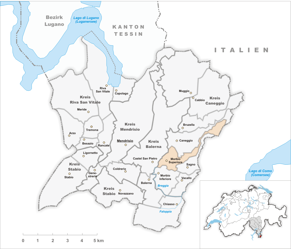 Municipality Morbio Superiore